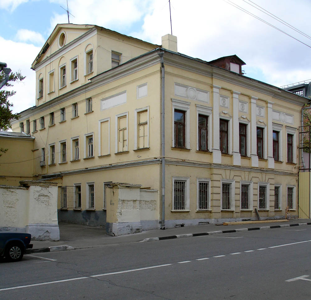 Stanislavskogo Street, Moscow - Konshin Estate. As of July 2008, the building appears to be partially gutted, with part of the roof missing. A two-story building to the left (not shown here), which appeared in decent shape in 2007, has been razed.